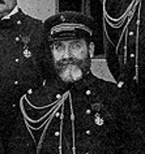 Captain Amet during naval maneuvers of 1913. Commander of the French fleet in the Black Sea in 1919.